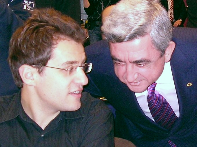 Levon Aronian and Serch Sarkissjan (President of the State Armenia), Chess Olympiad 2008, Photographer Gerhard Hund.